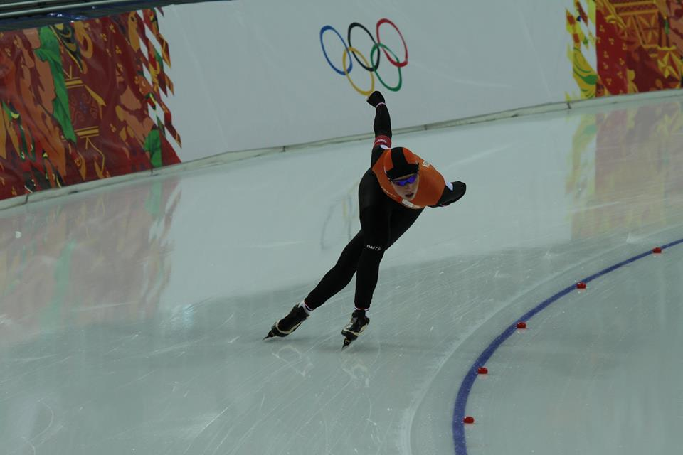 Women's 3000m, 2014 Winter Olympics, Antoinette de Jong